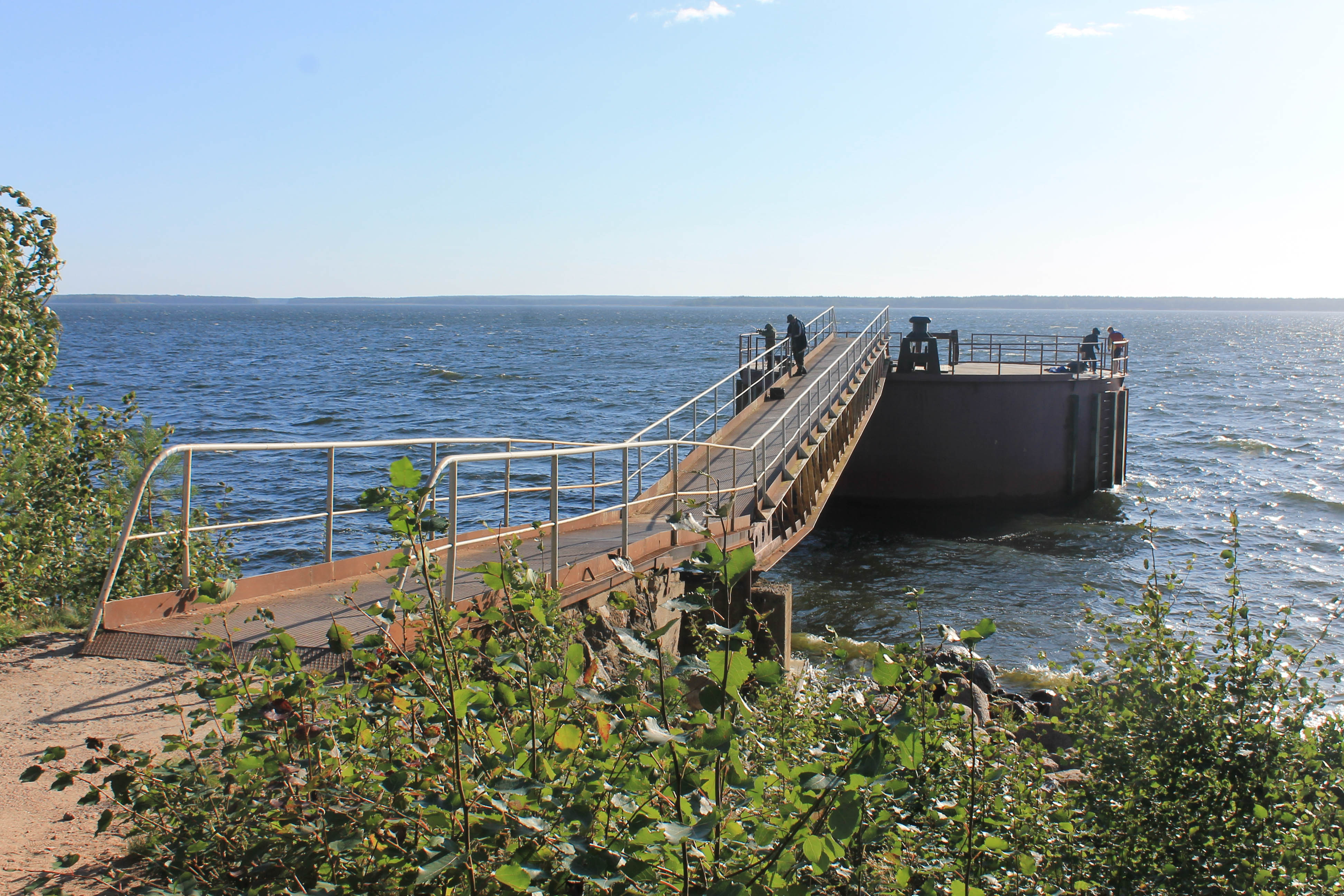 Shot was taken during wiki-meetup in Primorsk at August 17, 2020.